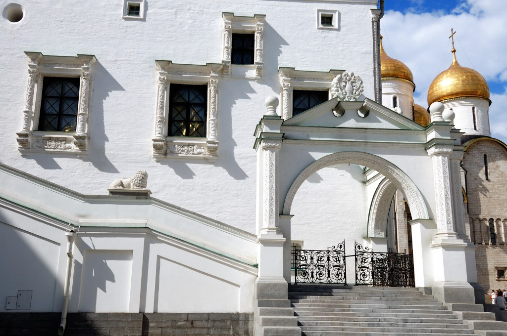 Russia, Moscow, The Kremlin